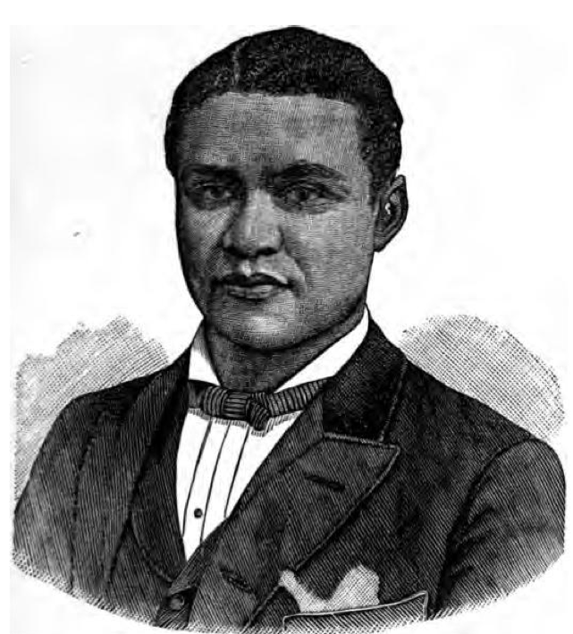 Portrait of Harry C. Smith, journalist, editor, founder and proprietor of the Cleveland Gazette, a long standing black newspaper that served the African American community and its interests from 1883 to 1945.